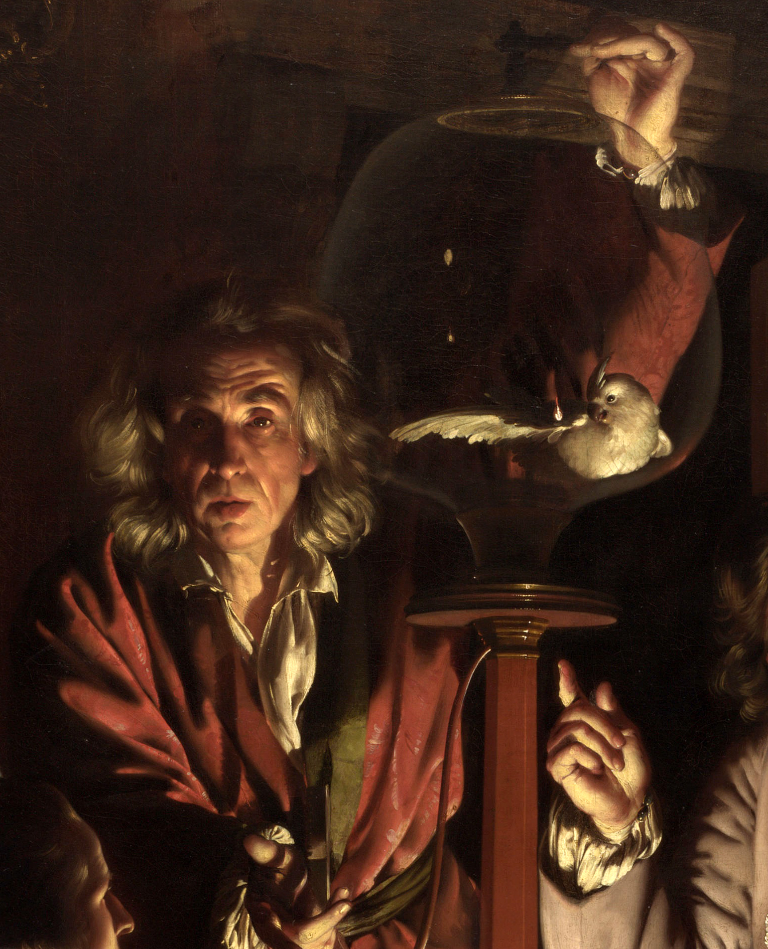 Joseph Wright of Derby. An Experiment on a Bird in the Air Pump. Detail. 1768. Oil on canvas. 182.9 x 243.9 cm. National Gallery, London, UK.